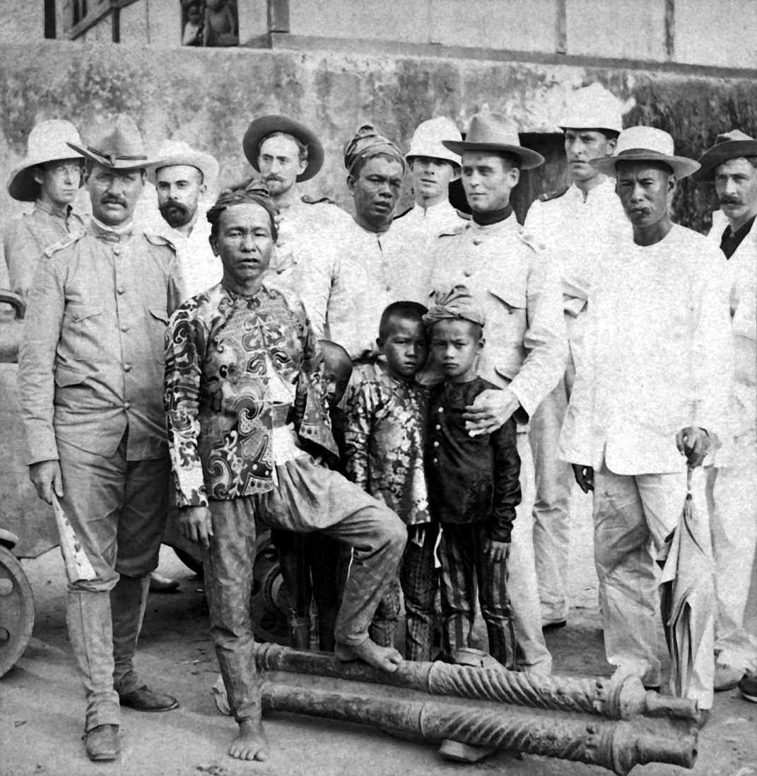 "Datto Piang, King of Mindanao, and American Officers. Ca. 1899-1900." HD-SN-99-01980. Resized version of the original downloaded from the source listed. (Actually, this image seems to be by Christiaan Benjamin Nieuwenhuis not B.W. Kilburn)